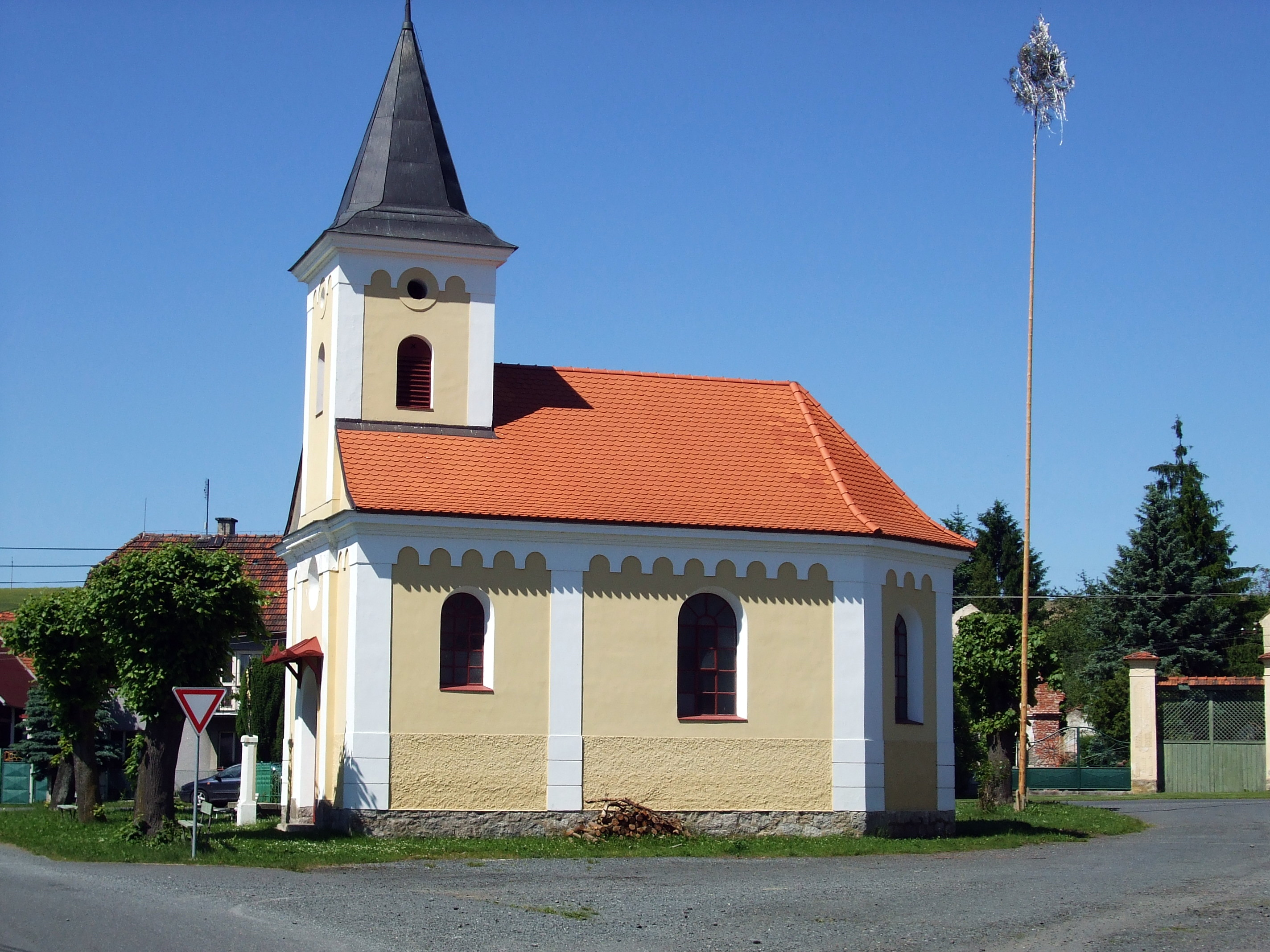 Church in Radonice (Milavče), Domažlice District, Plzeň Region, Czech Republic